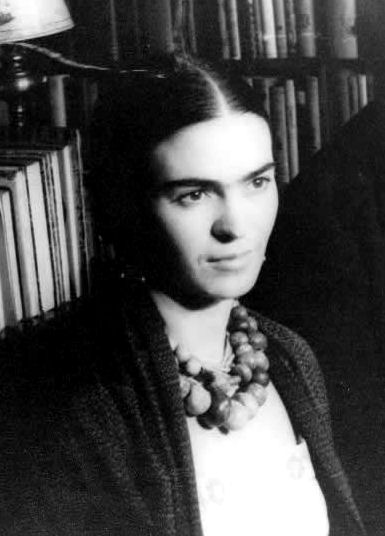 Portrait of Diego Rivera and Malu Block and Frida Kahlo de Rivera